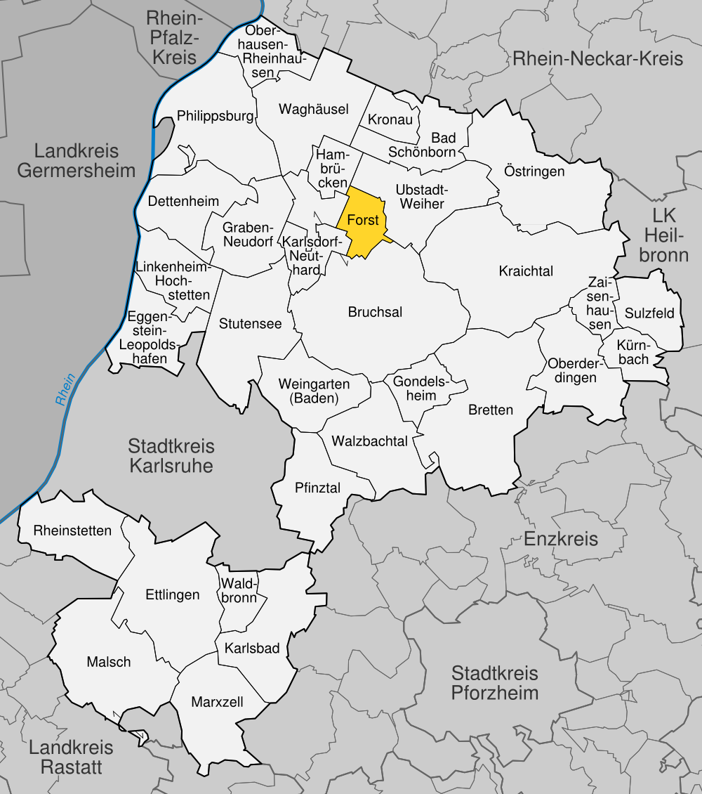 position of Forst within distict of Karlsruhe, Baden-Württemberg, Germany